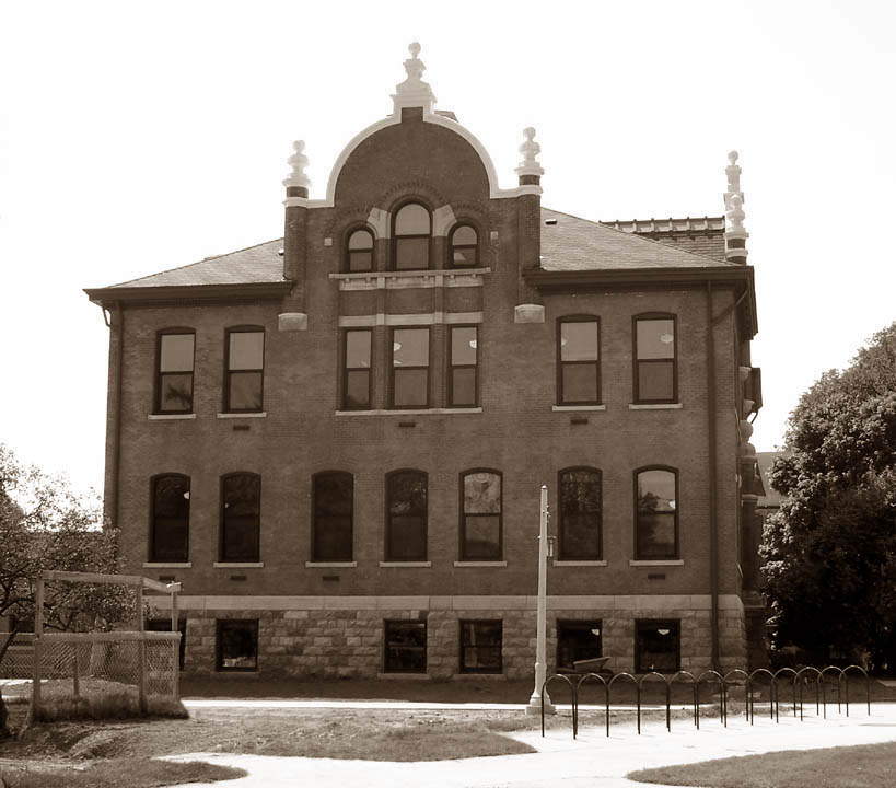 Photo self-taken and sepiatoned.